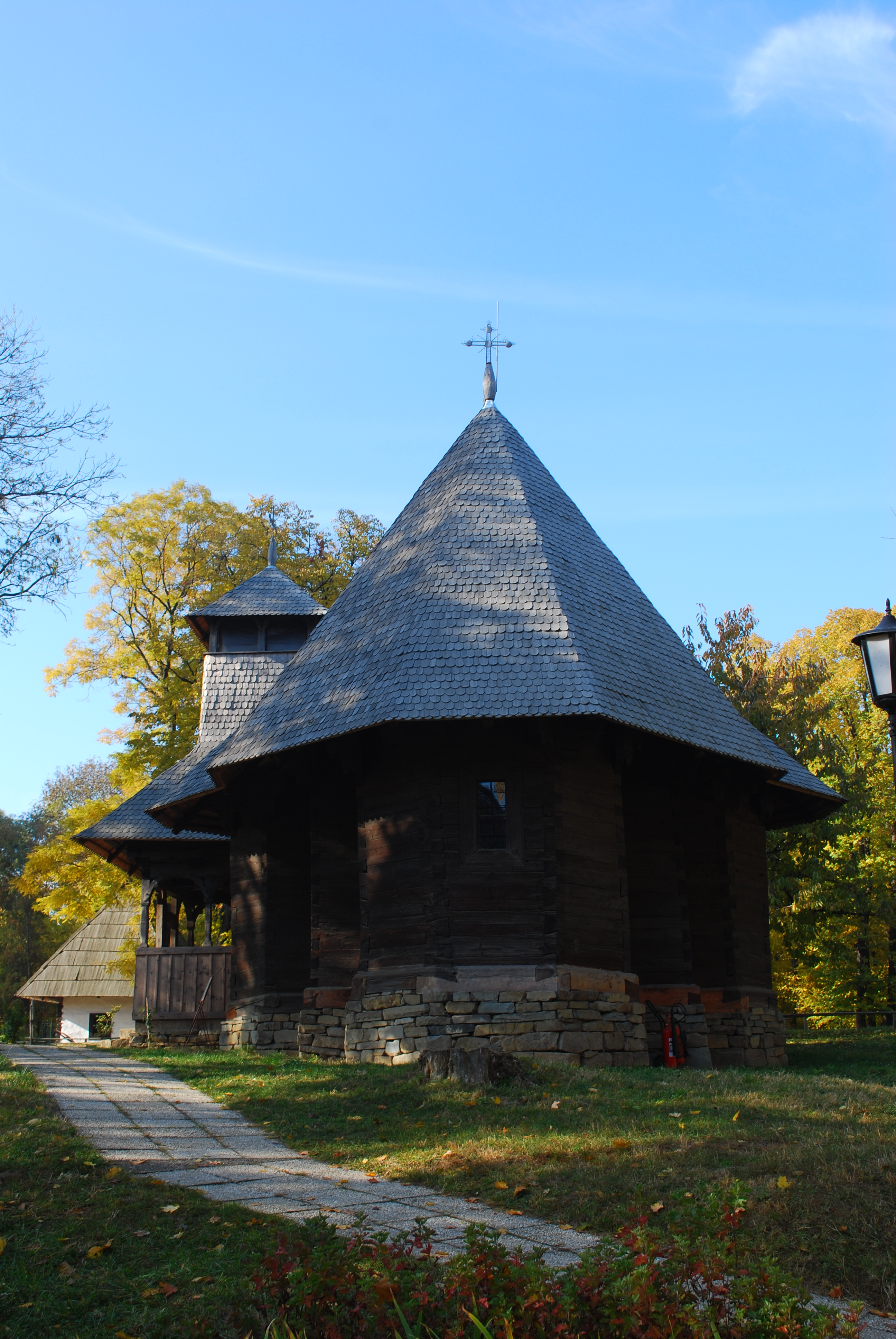 1773 church from Răpciuni, Neamţ County, Romania, exhibited in the Village Museum in Bucharest.